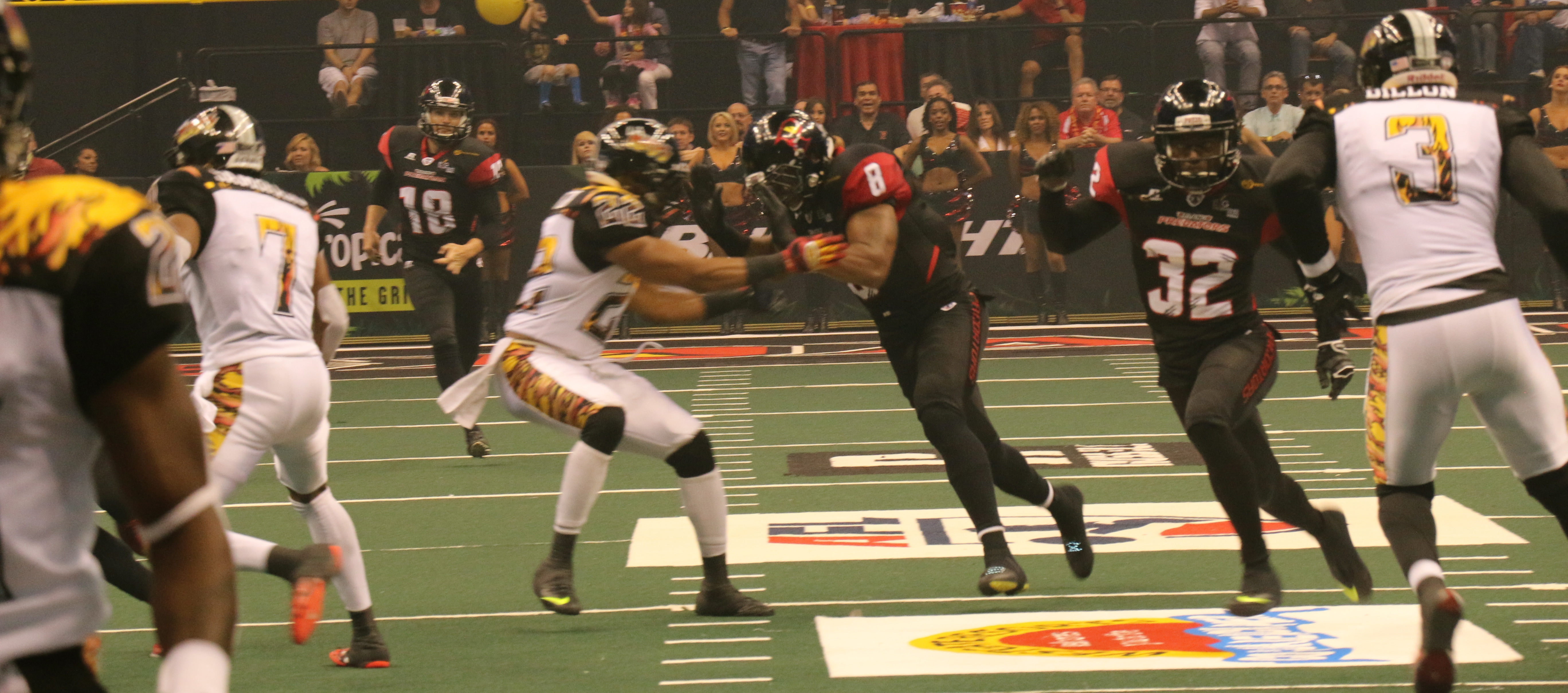 ORLANDO, Fla. – The Headquarters and Headquarters Company, 143d Sustainment Command (Expeditionary) Color Guard presented our nation’s colors to more than 11,000 screaming fans who waited to see the Orlando Predator take on the Los Angeles Kiss at the Amway Center here, Saturday, April 18, 2015. The Orlando Predators are a professional arena football team based in Orlando, Florida. The team is part of the South Division of the American Conference of the Arena Football League. “The 143d color guard did an outstanding job as usual,” said Mr. Adrian Robles, the community relations director for the Predators. "We always look forward to seeing them perform", he further added. Photos by Chief Warrant Officer 3 Desiree Felton